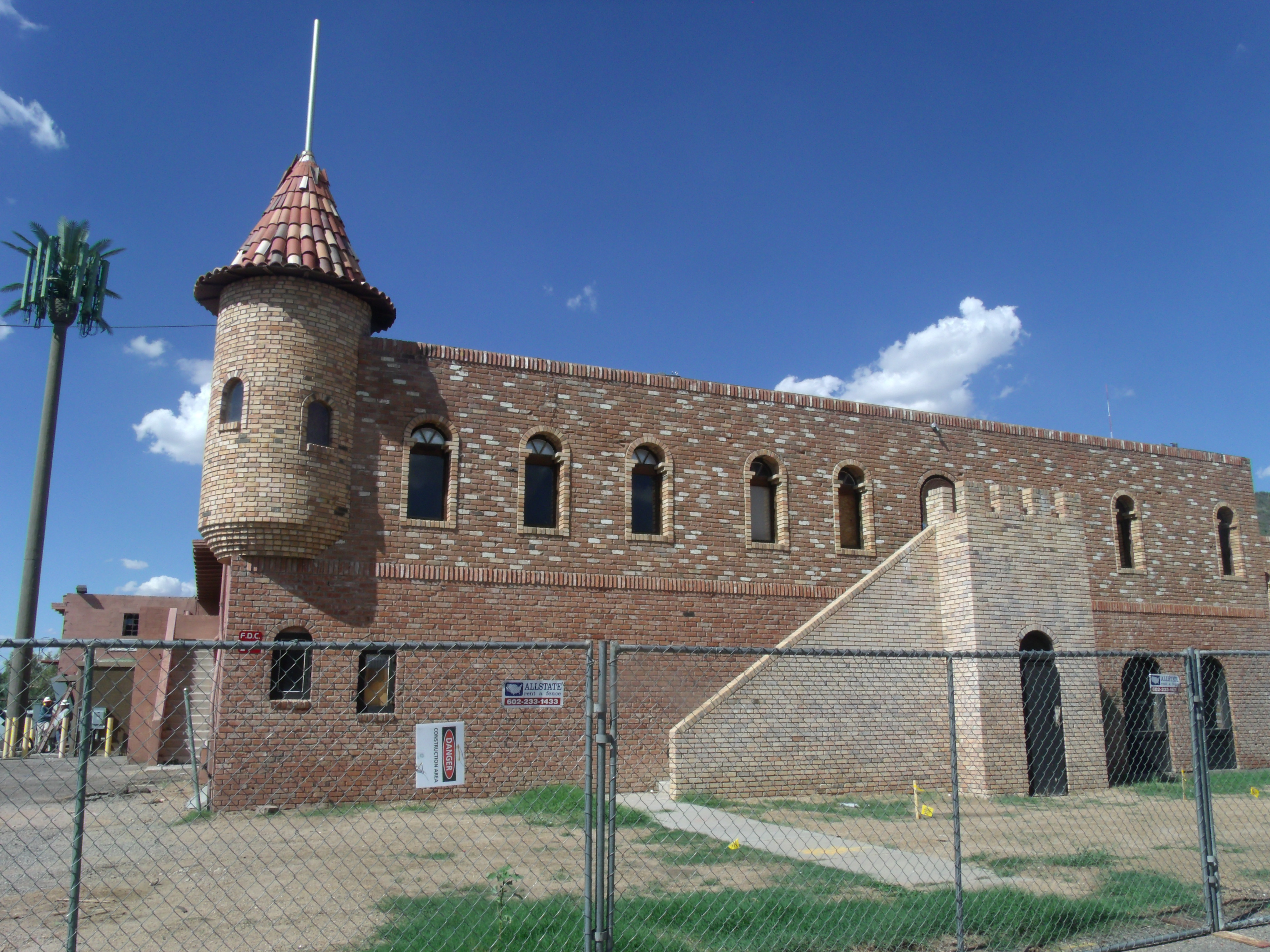 Different side view of the historic "El Cid Castle" located at the Northwest corner of 19th Ave and West Cholla Drive in Phoenix, Az.. The castle was a bowling alley which resembled a Moorish castle.